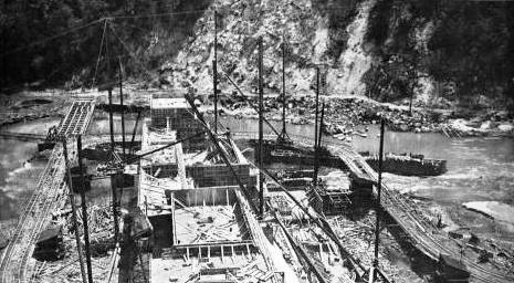 Ocoee Dam No. 1 under construction in Polk County, Tennessee, United States.